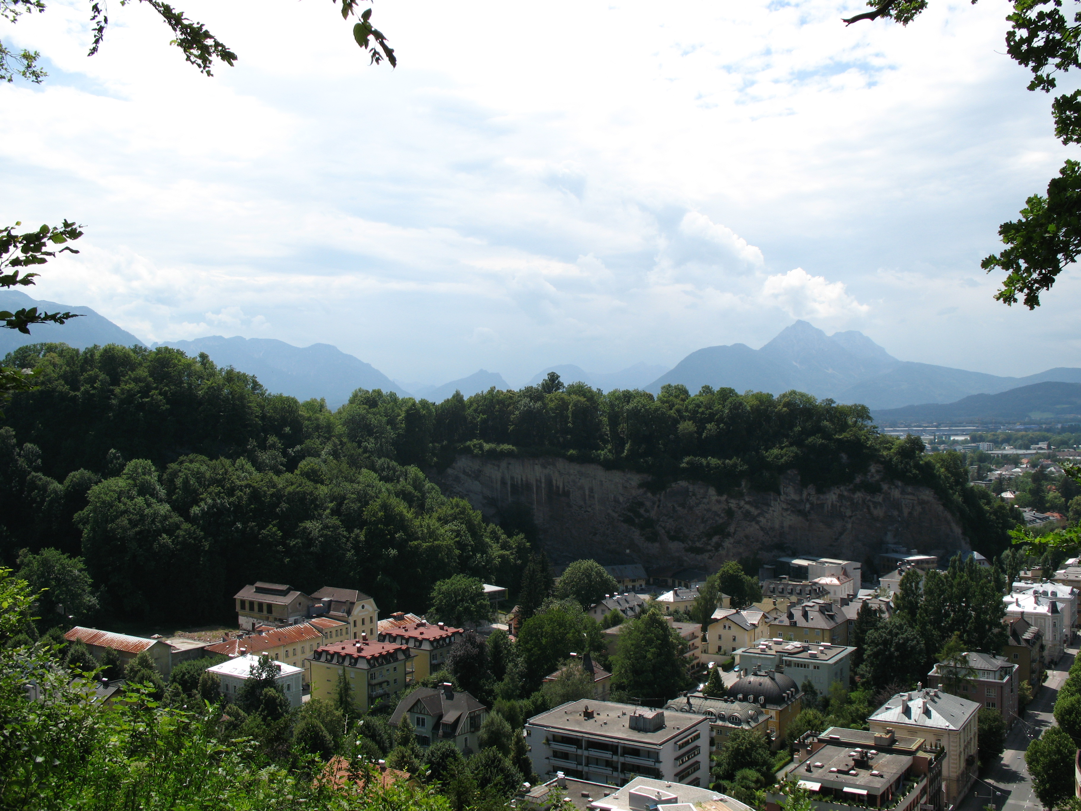 View from Monk Hill, Salzburg, Austria